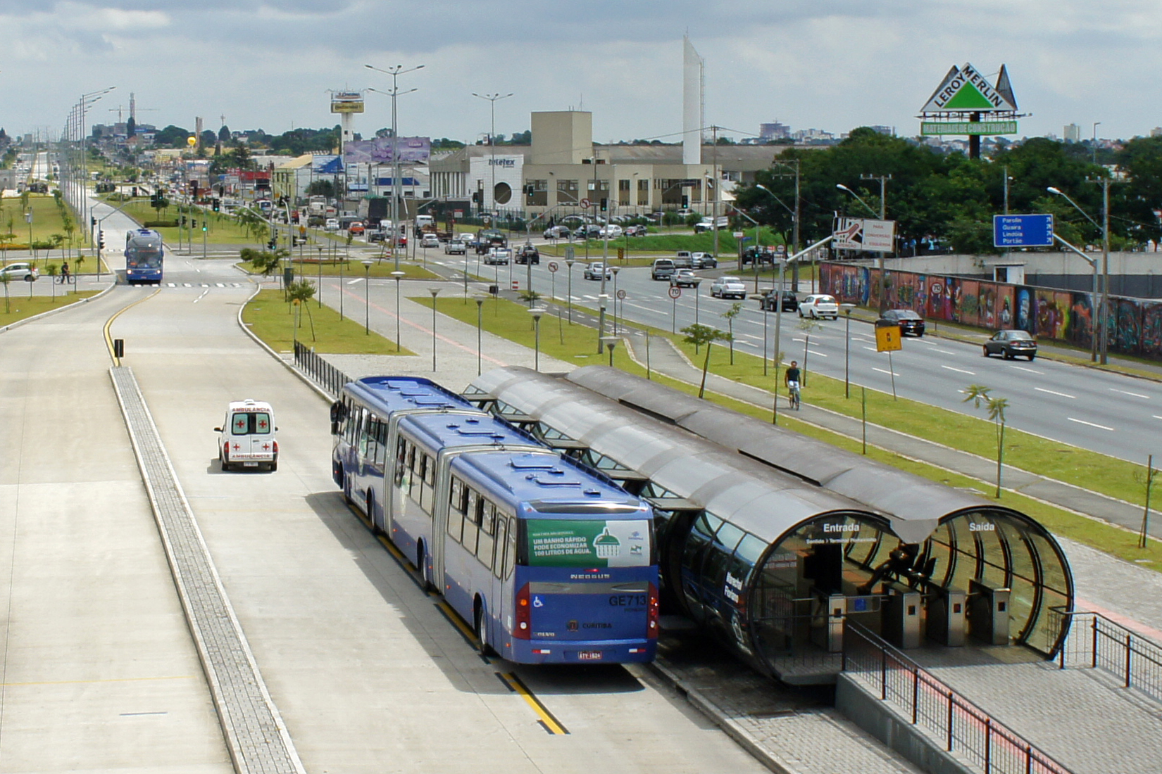 Marechal Floriano BRT station, Linha Verde (Green Line), Curitiba RIT, Brazil